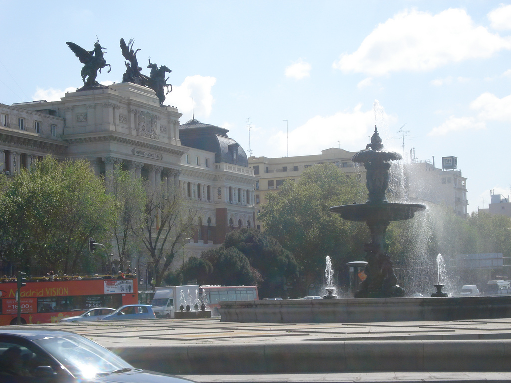 Plaza del Emperador Carlos V (square) in Madrid (Spain). At the left, the Spanish Ministry of Agriculture, Fisheries and Food headquarters.